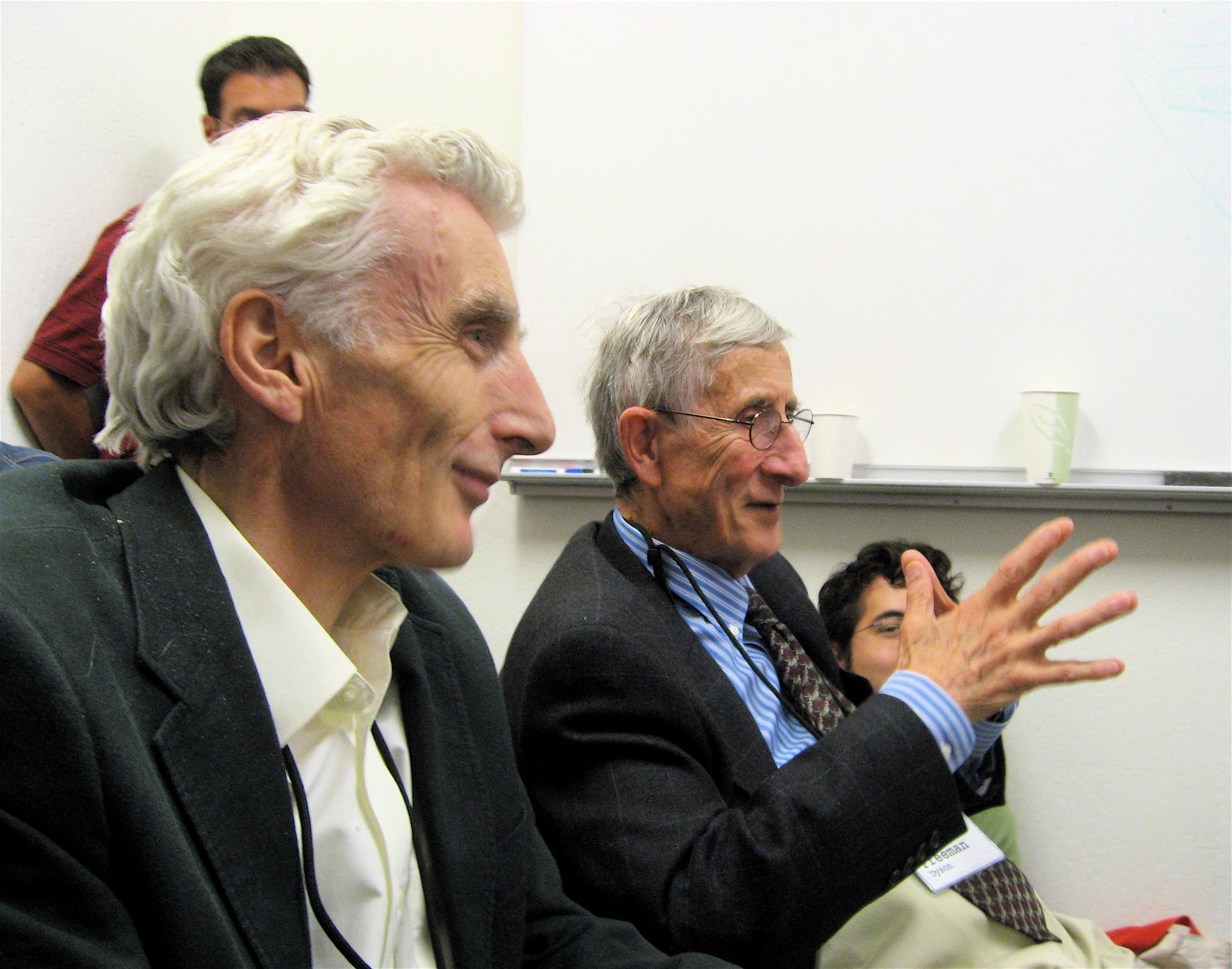 Martin Rees and Freeman Dyson.